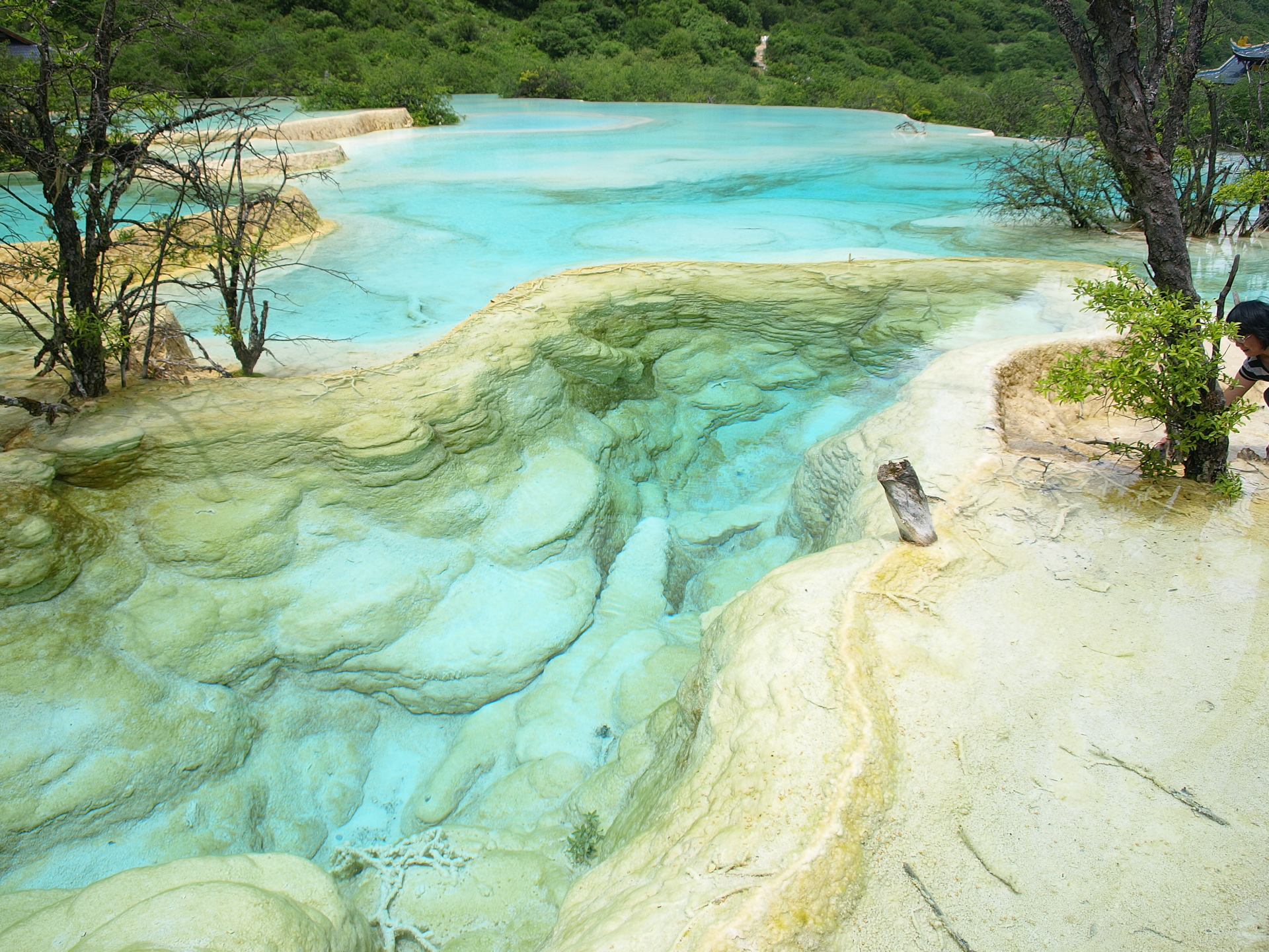 The water of Five-Colored-Pond, Huanglong Park, Sichuan, China.